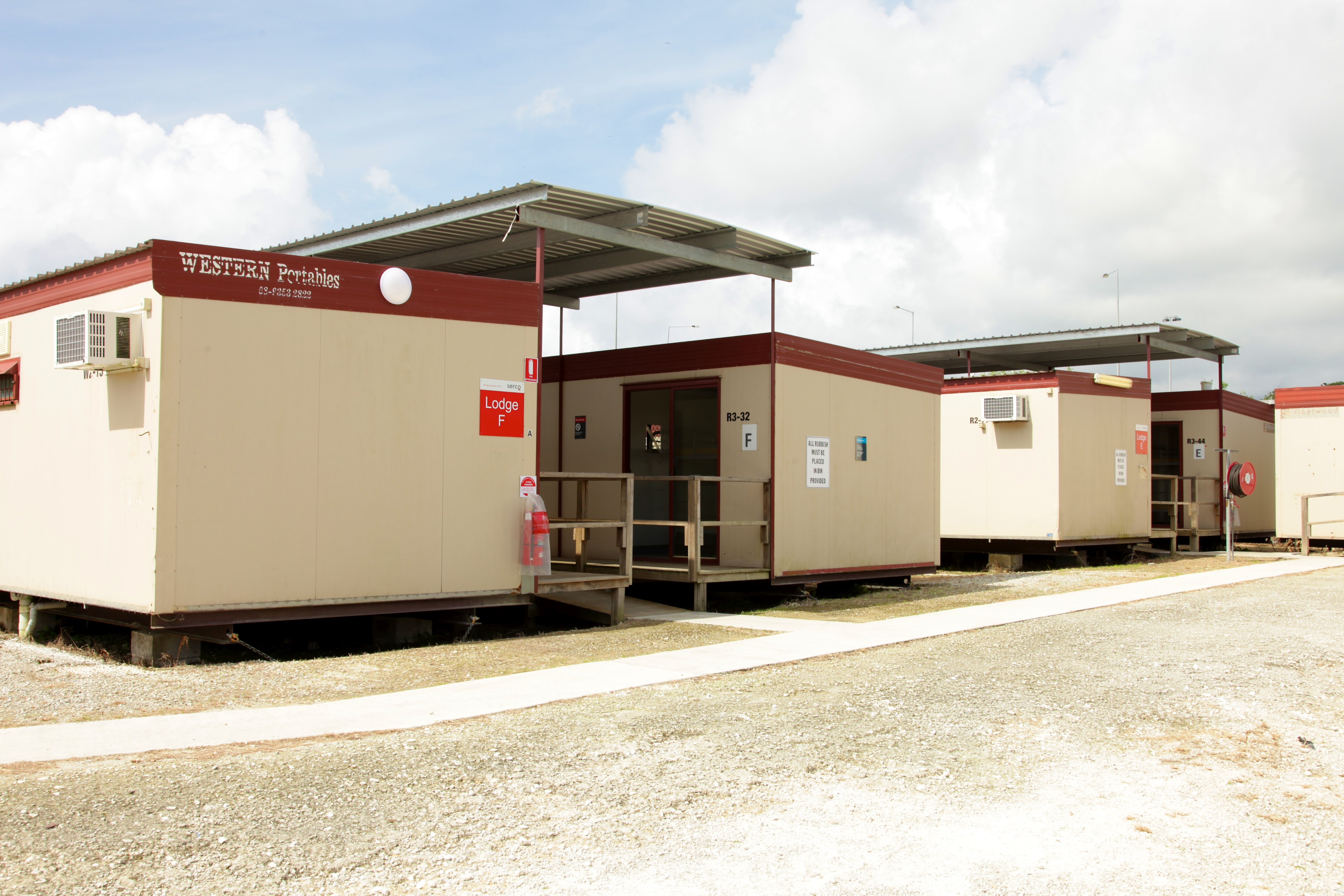 Christmas Island Immigration Detention Centre - Lilac compound